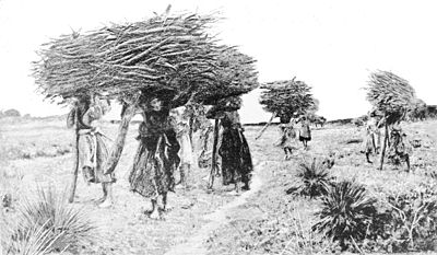 Florentine Wood Gatherers. (After Gioli.)